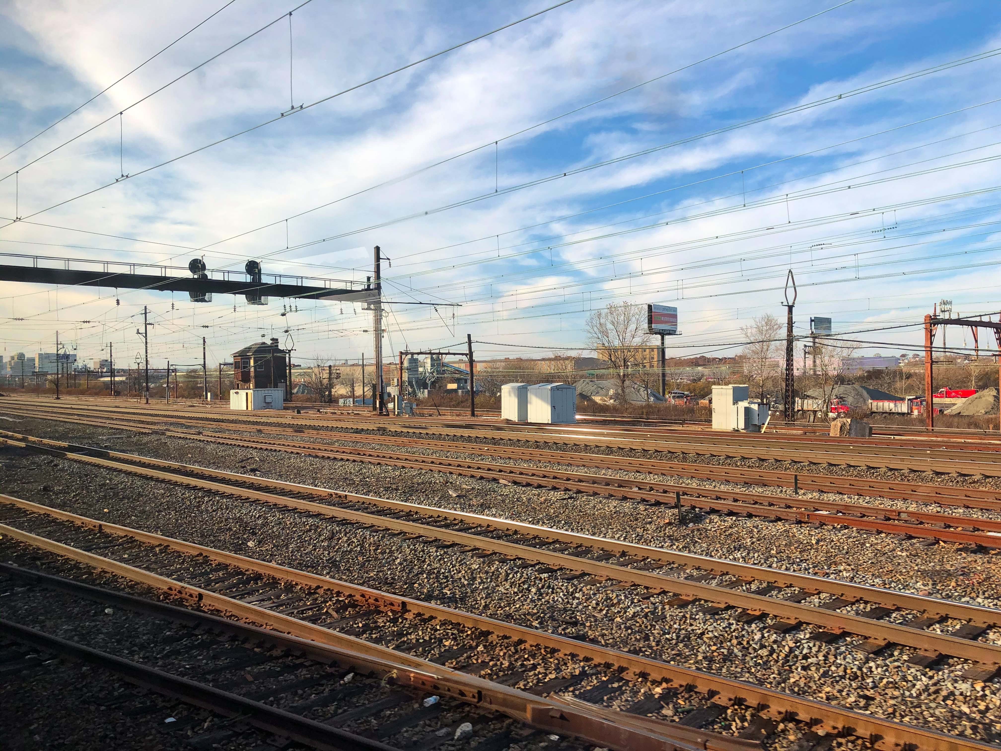 The location where the Manhattan Transfer station used to be, This is the Northeast Corridor former PRR line